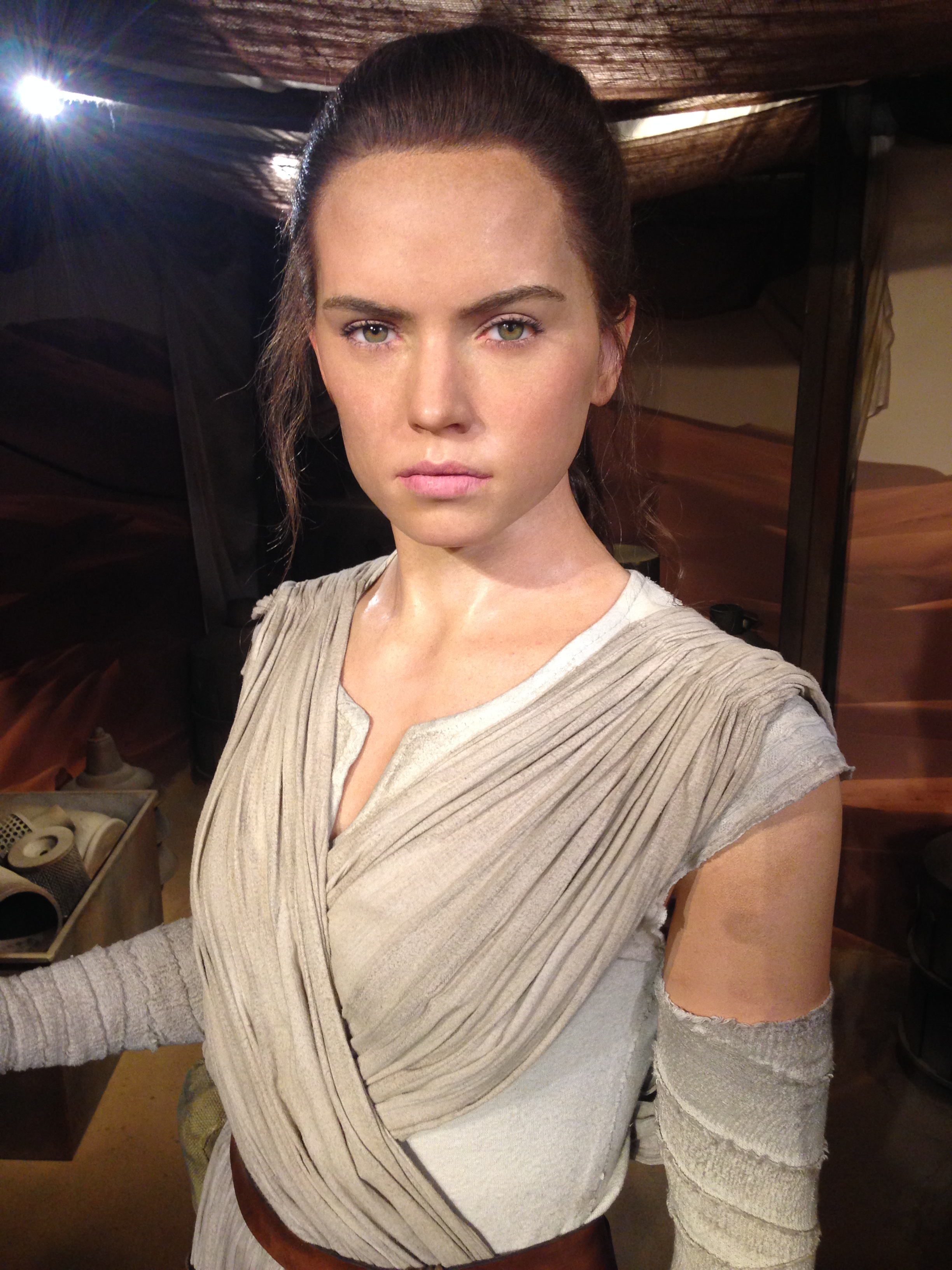 Wax figure of Star Wars character Rey Palpatine at Madame Tussauds London